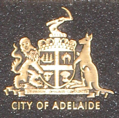 Jubilee 150 Walkway - City of Adelaide coat of arms